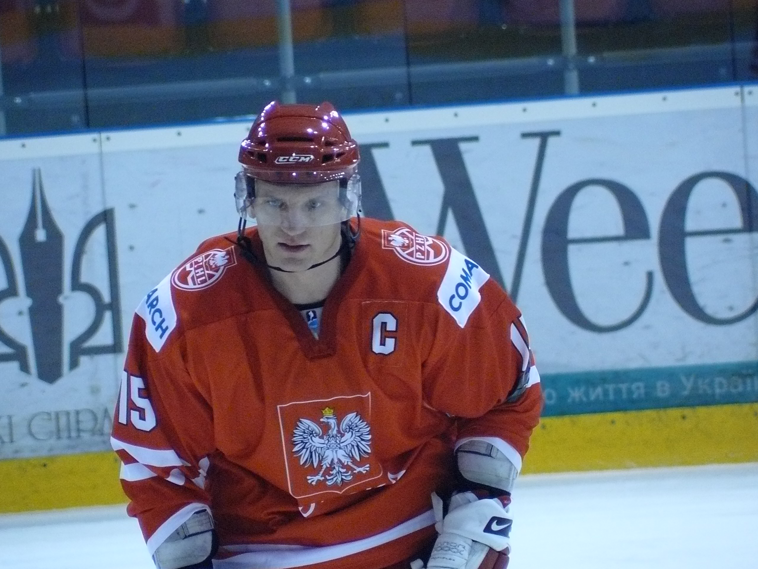 Forward Leszek Laszkiewicz #15 of the Poland during the friendly game against the Ukraine on April 10, 2010 at the Terminal Arena in Brovary, Ukraine. Ukraine won the game 2:1.